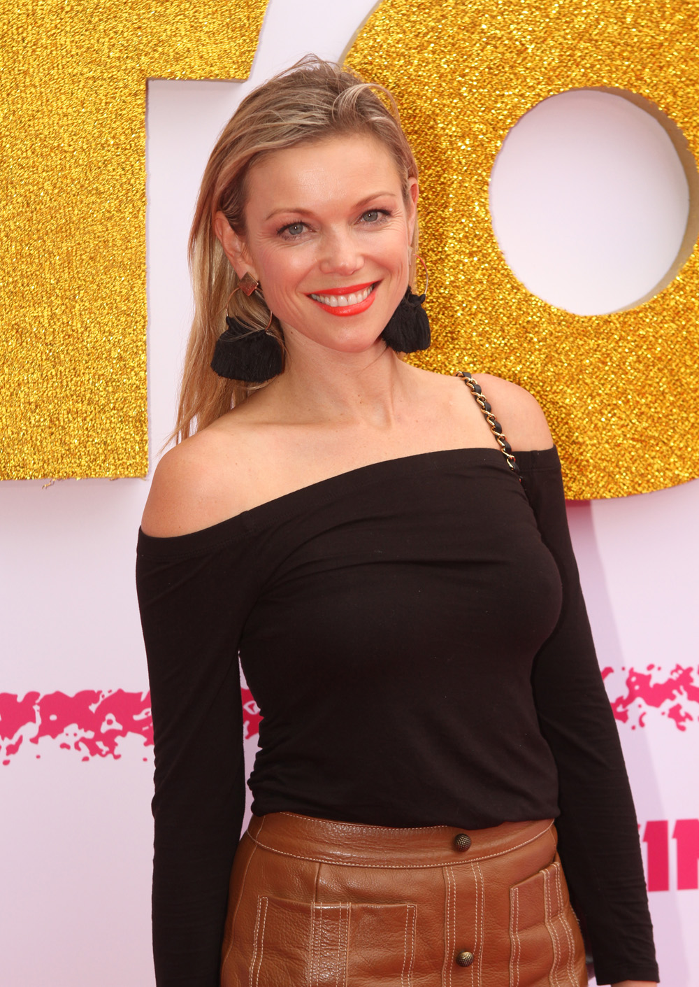 Holly Brisley, Photo by Eva Rinaldi (2)